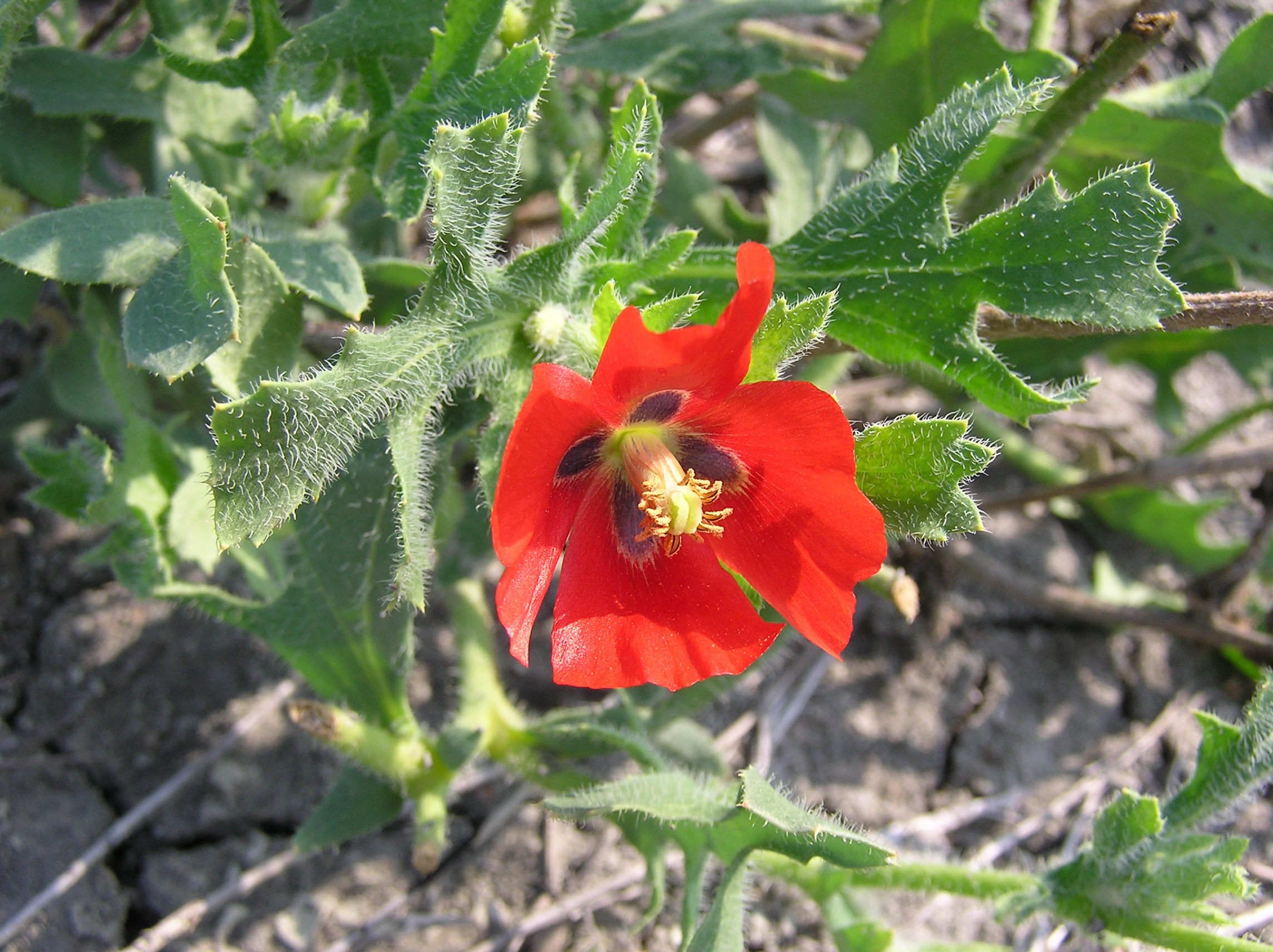 Glaucium corniculatum (L.) Rudolph, flower and foliage. Habitat: chalk exposure. Vicinity of Saratov city, Russia.